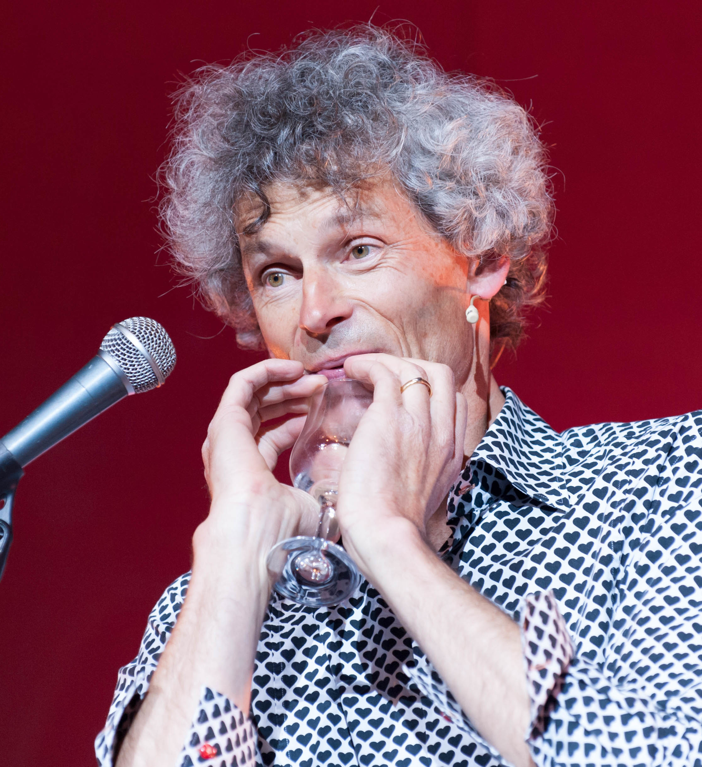 Alexandre Cellier, Swiss musician, performer and composer - 3rd May 2016 - TEDx Geneva New Horizons